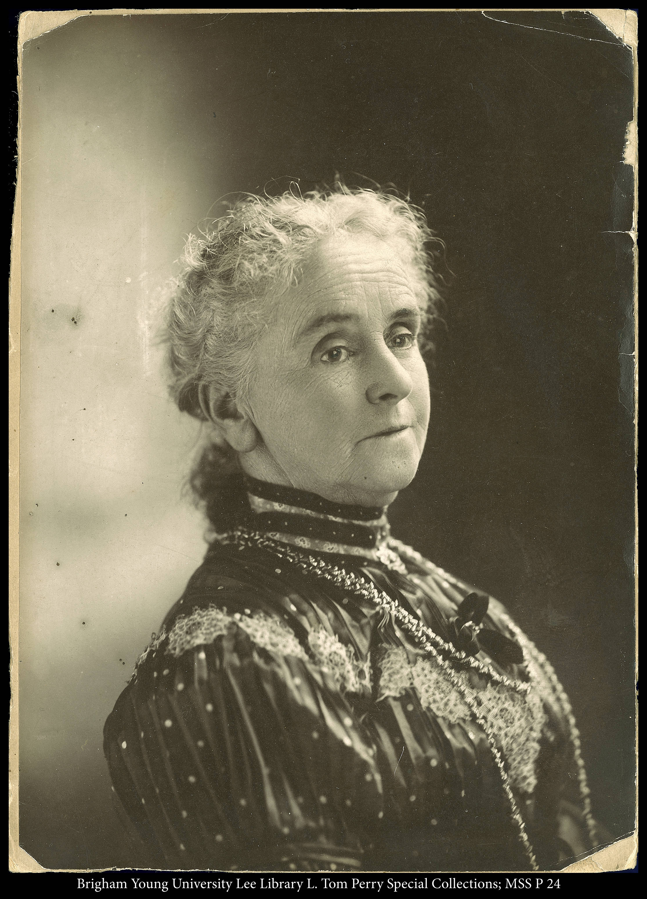 Bust portrait of Annie Adkins Savage, wife of C. R. Savage.